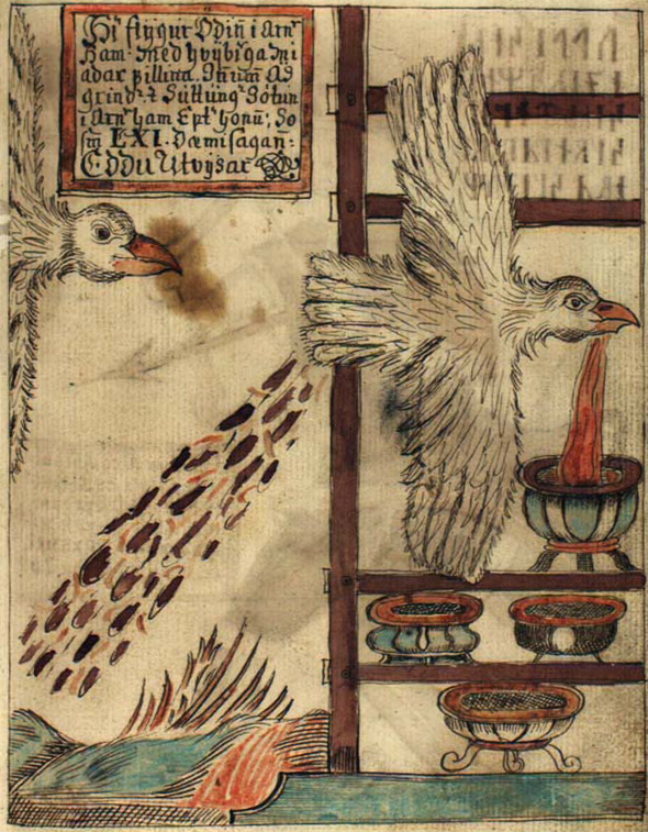 An illustration of Odin, in the shape of an eagle, stealing the Mead of Poetry from Suttungr, from an Icelandic 18th century manuscript.